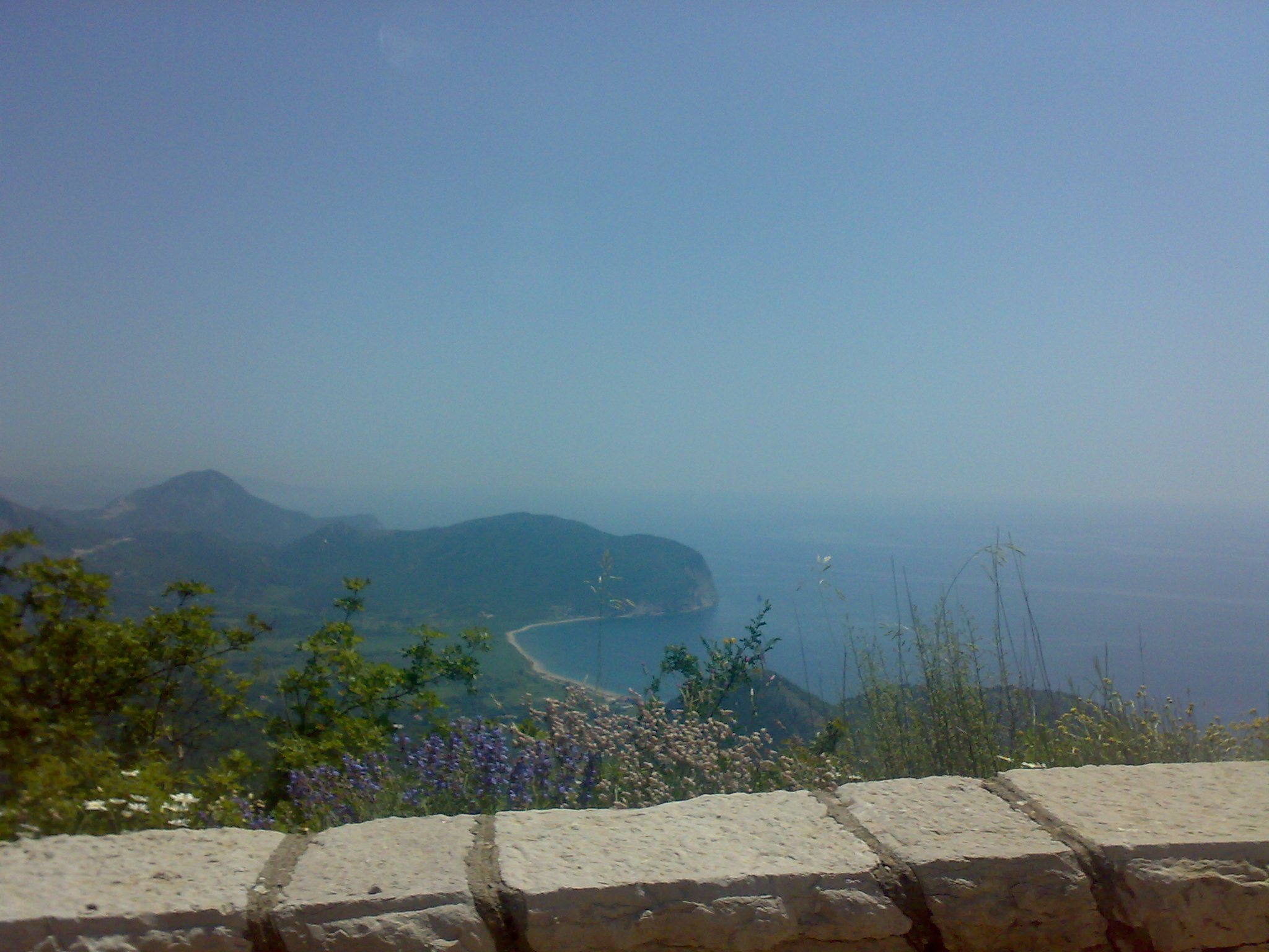 Buljarica Bay in Adriatic, Budva municipality, Montenegro